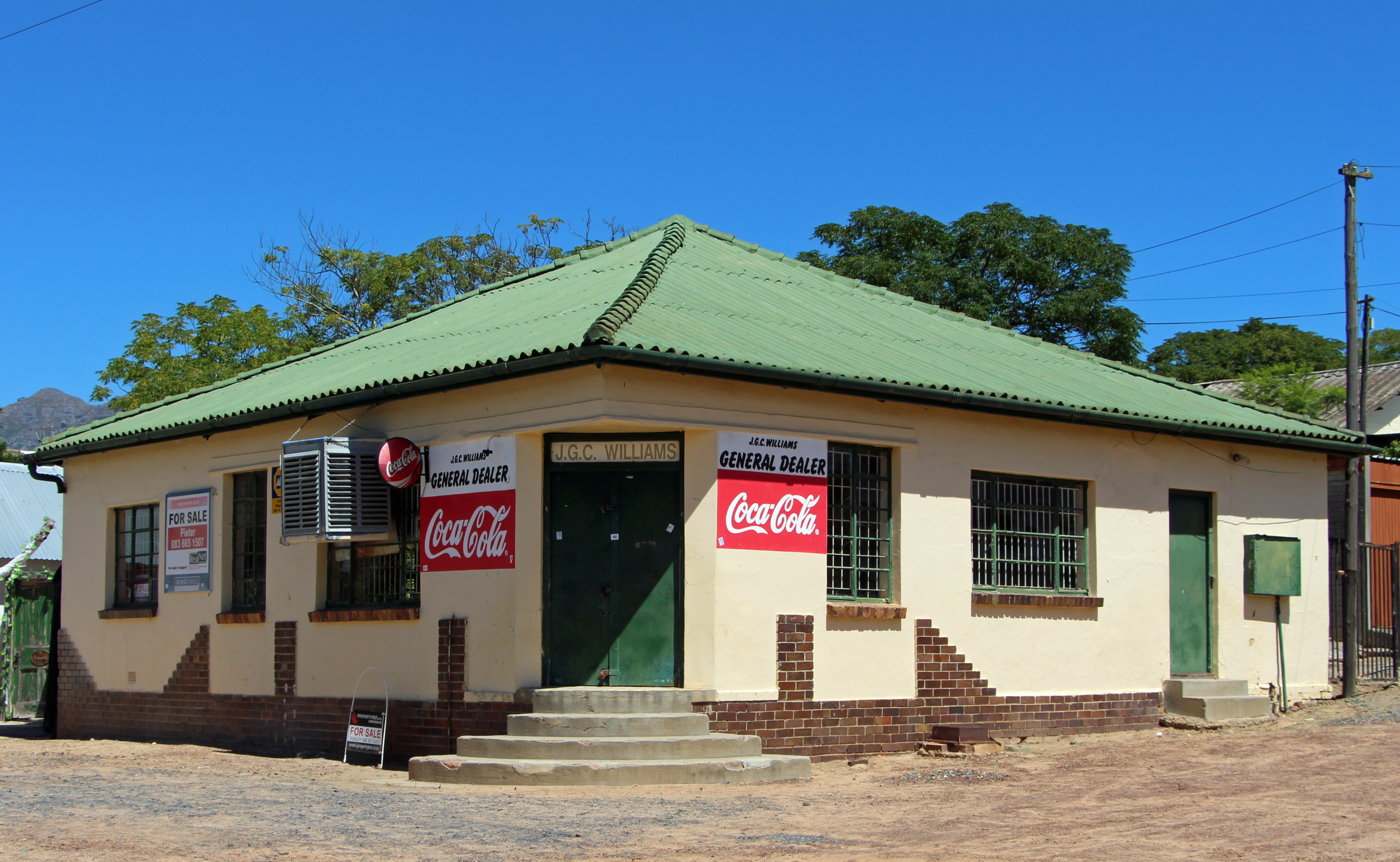 Vacant General Dealer building in Webersvallei Road, Jamestown